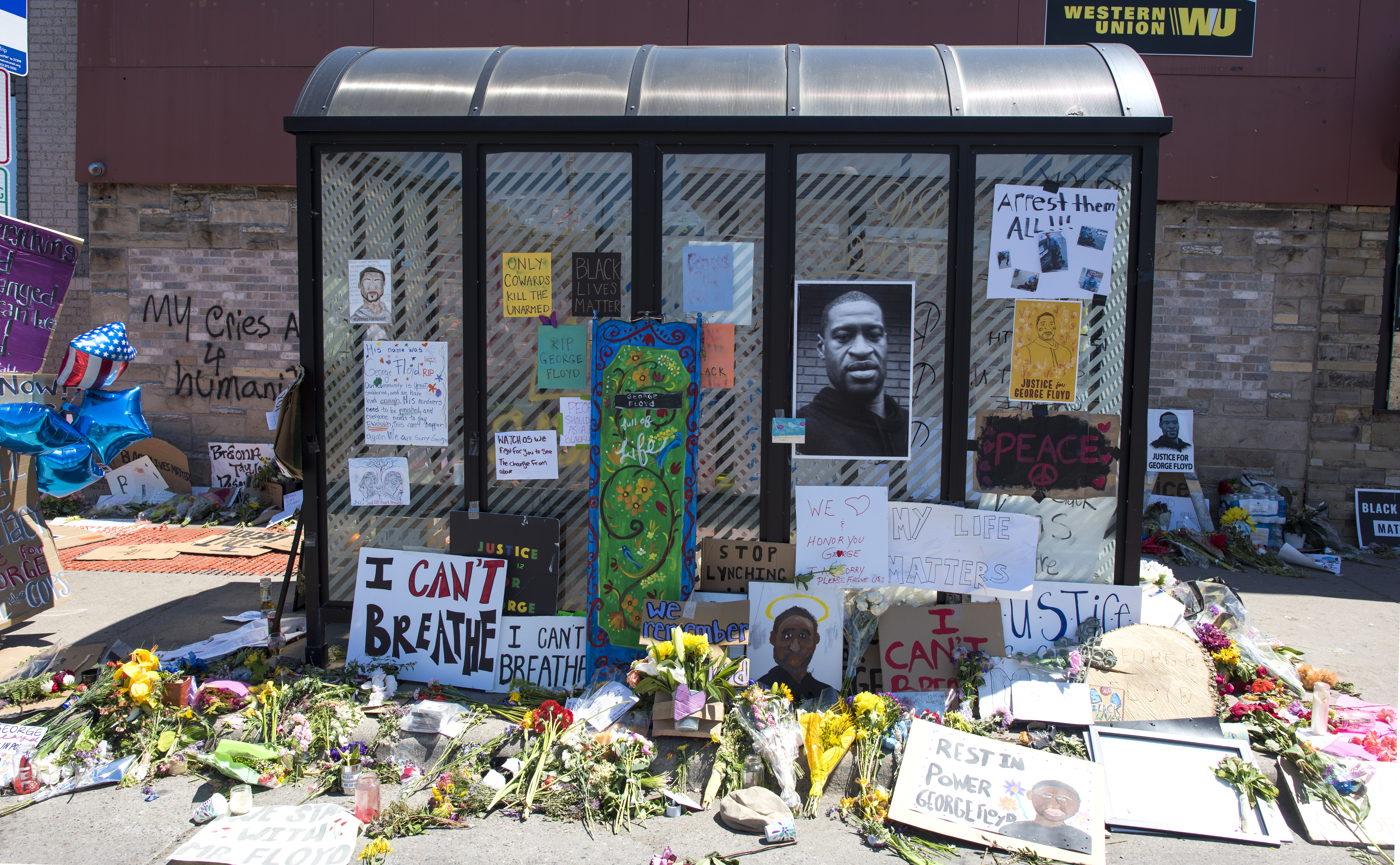 Minneapolis, Minnesota May 30, 2020 12:30pm On May 25, Minneapolis Police officers arrested George Floyd, handcuffed him, then held him down on his stomach while Derek Chauvin put a knee on his neck as Floyd pleaded for breath. George Floyd died soon after. The four officers at the scene have been fired. Derek Chauvin has been arrested and charged with 3rd degree murder and 2nd degree manslaughter. 2020-05-30 This is licensed under the Creative Commons Attribution License. Give attribution to: Fibonacci Blue